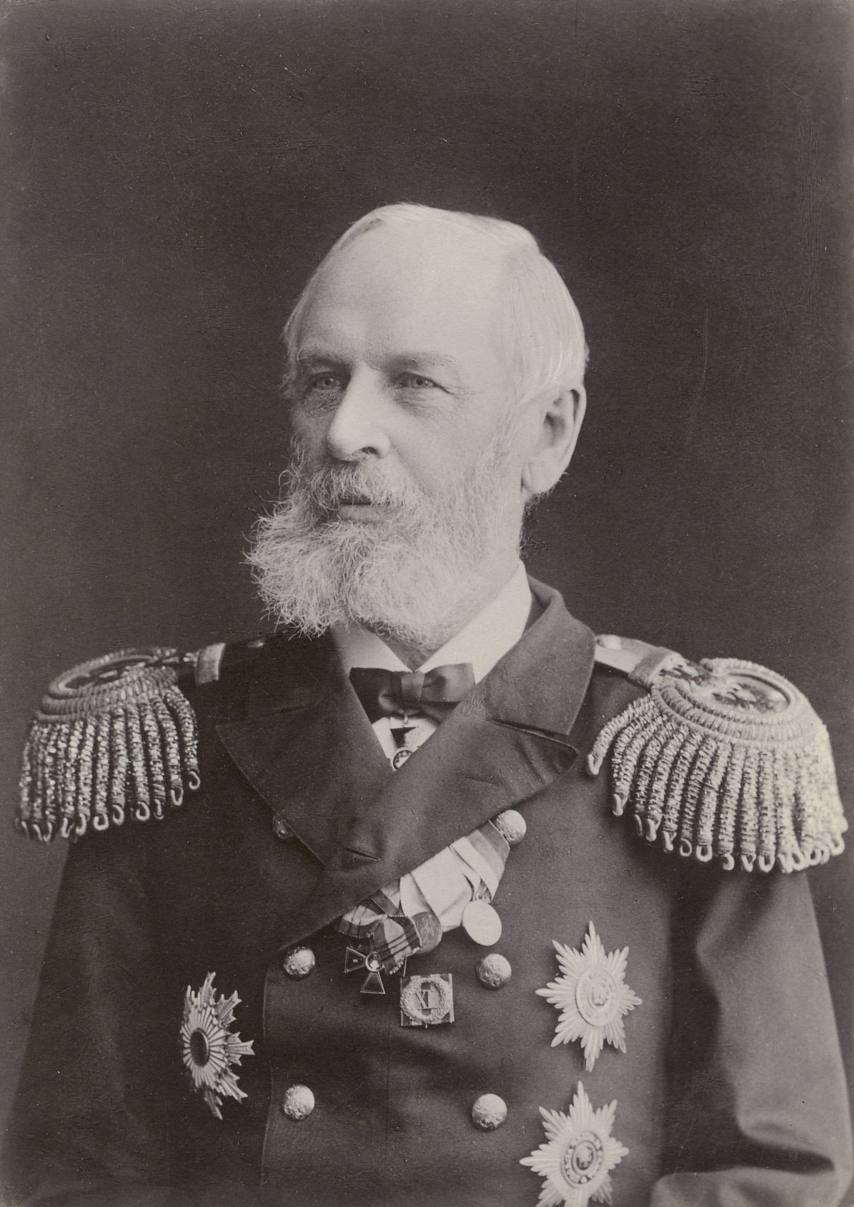 Russian Vice Admiral baron Olaf von Stackelberg (1818-1903)